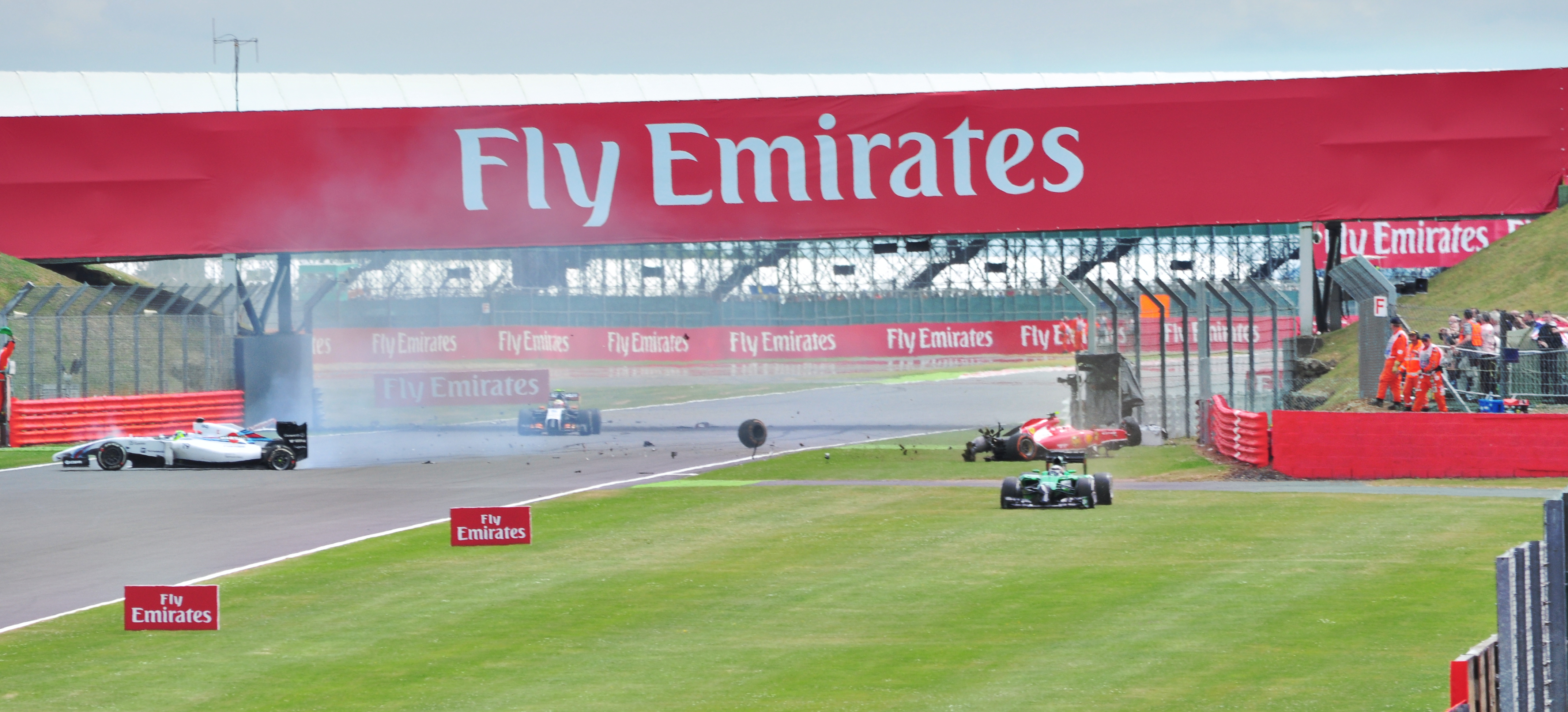 Räikkönen crashes and takes Felipe Massa out, at 2014 British Grand Prix.